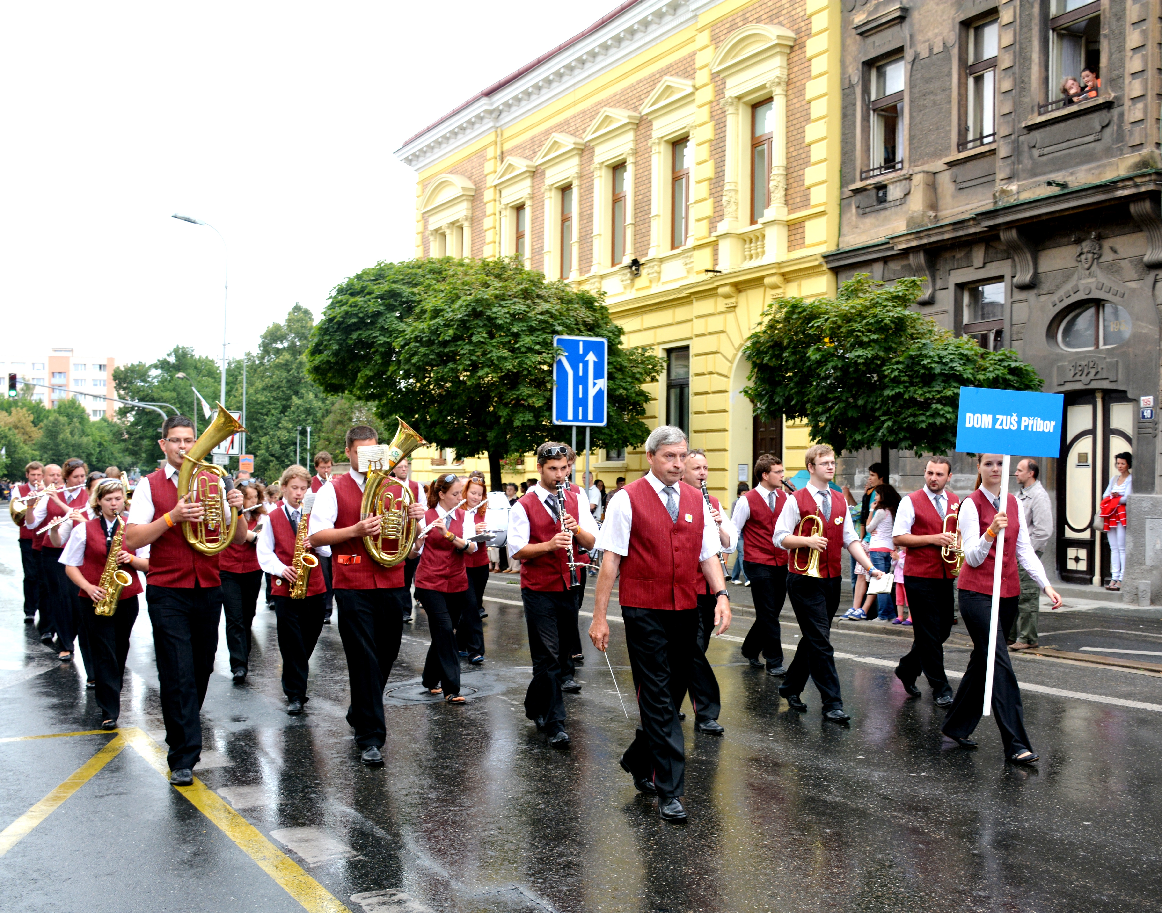 Kmochův Kolín 2014 - International music festival